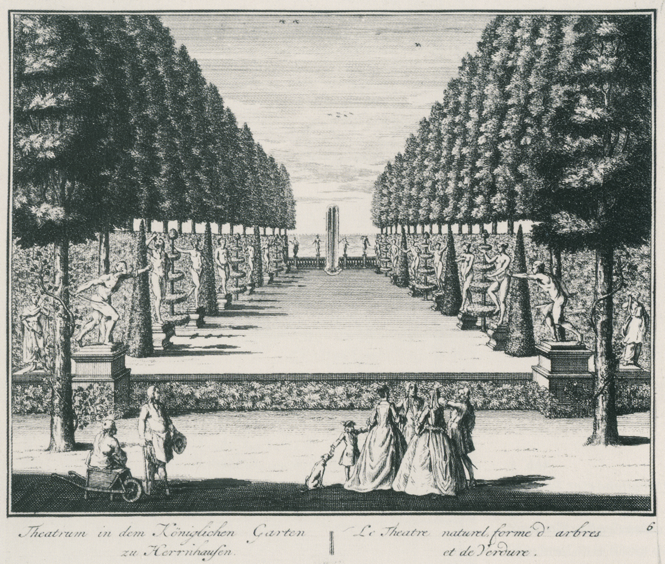 View of the ‛Great Garden’ at Herrenhausen Gardens, Hanover: Platform of the sylvan theater built between 1689 and 1692, copperplate engraving, about 1725.